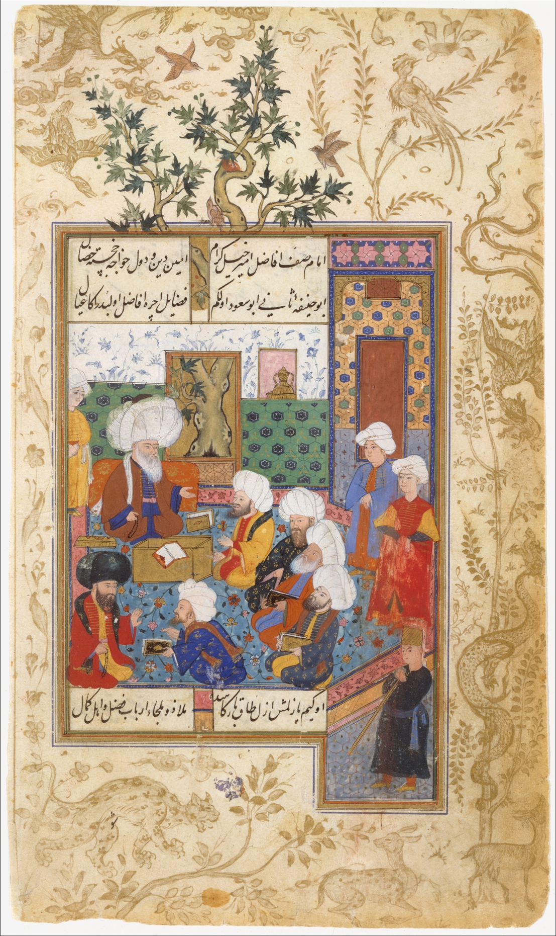 Folio from an illustrated manuscript; Codices